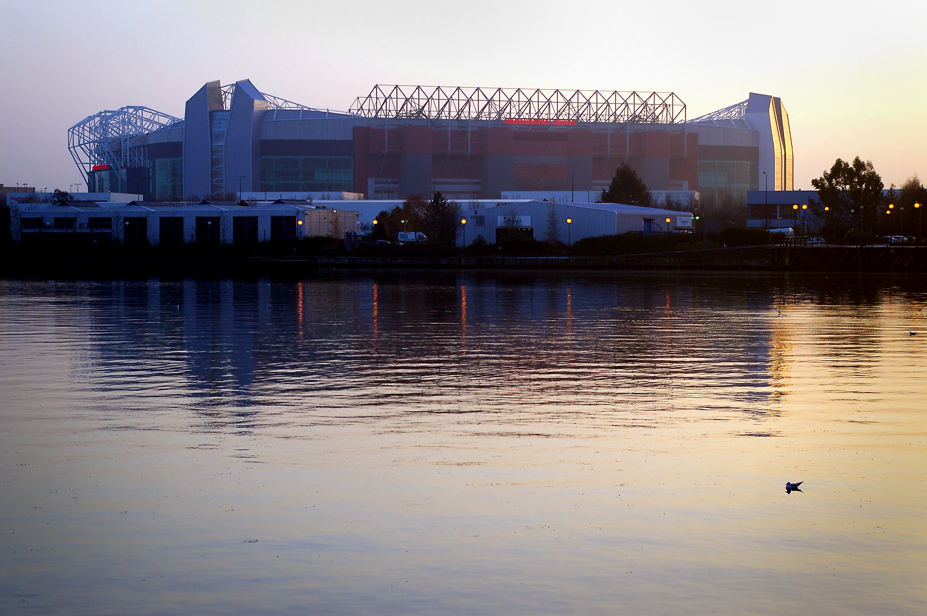 Old Trafford, Greater Manchester, England.